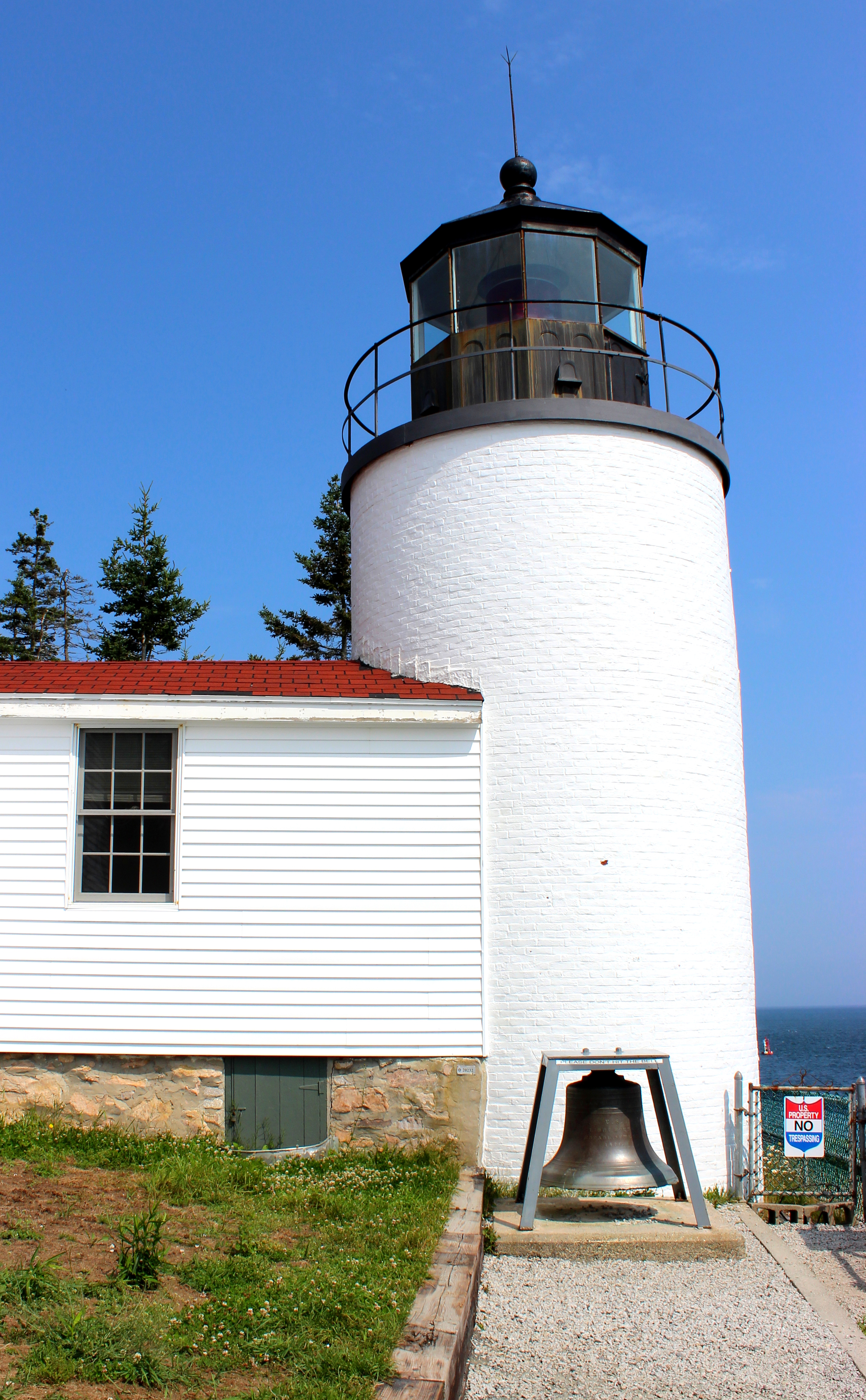 Bass Harbor U.S. Coast Guard Light House, ME